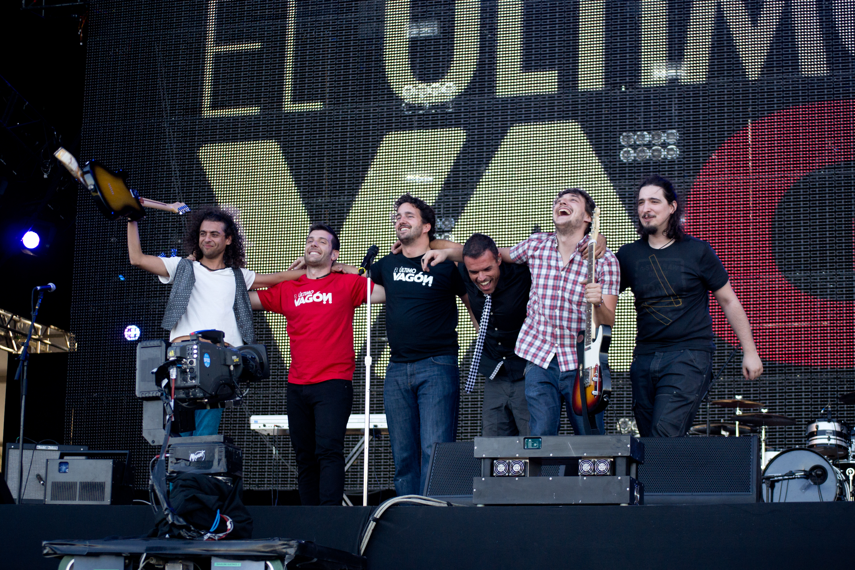 Spanish pop rock group El último vagón playing live at Rock in Rio Madrid 2012.